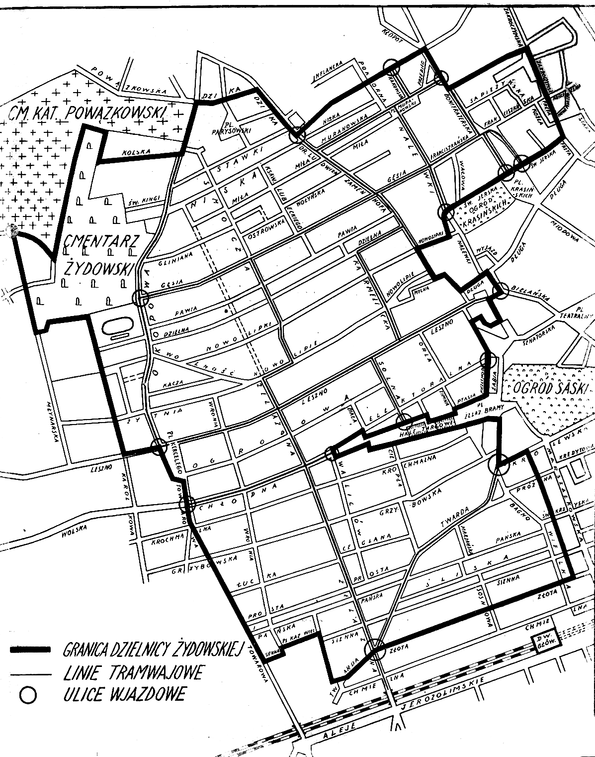 Warsaw Ghetto Map